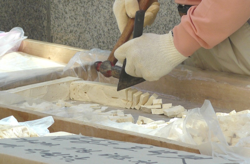 Hobakyeot (호박엿), a variety of yeot, Korean traditional candy, which is made with rice, pumpkin.